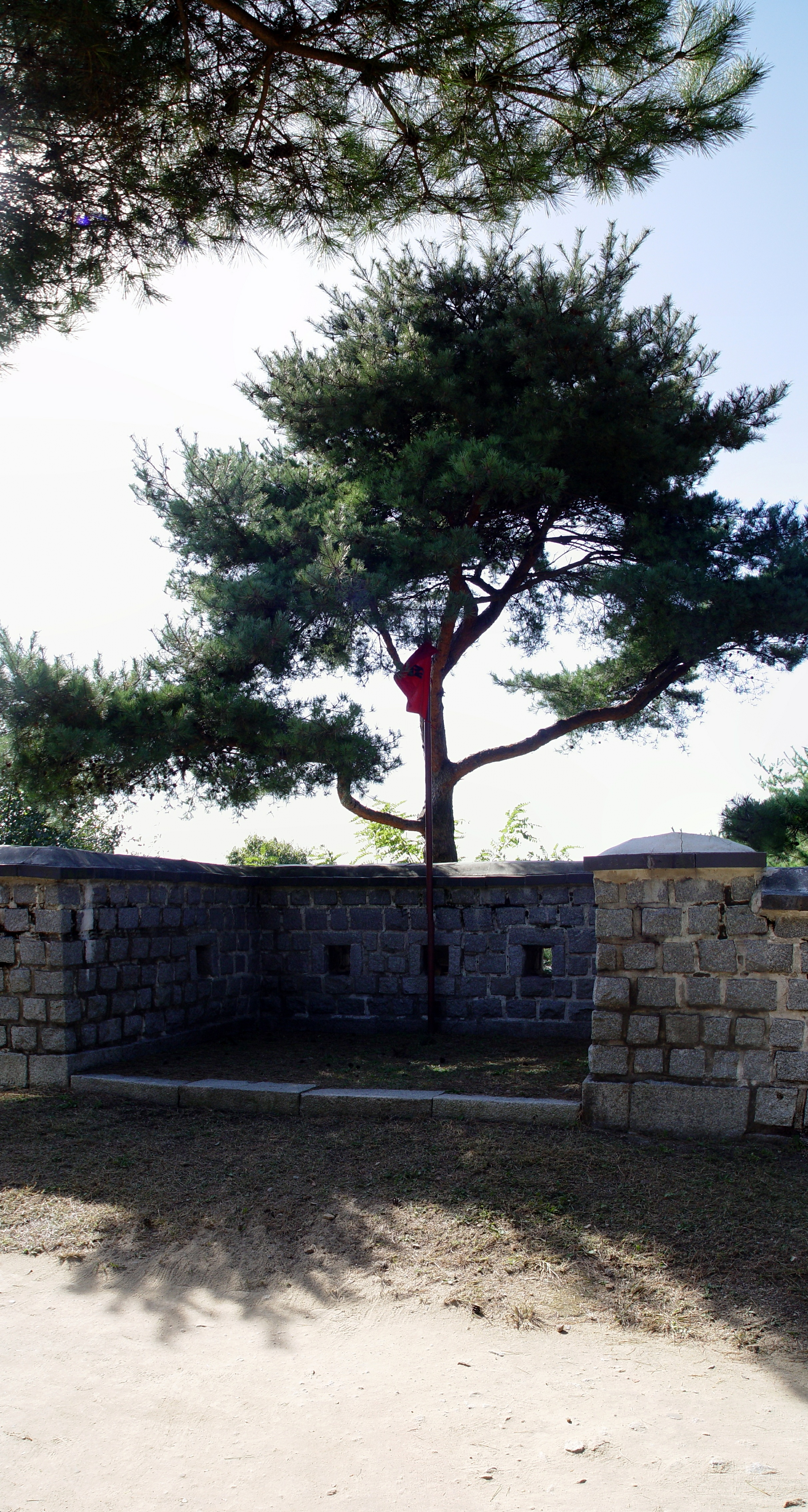 Yongdoseochi - a turret on Hwaseong Fortress, Suwon, South Korea